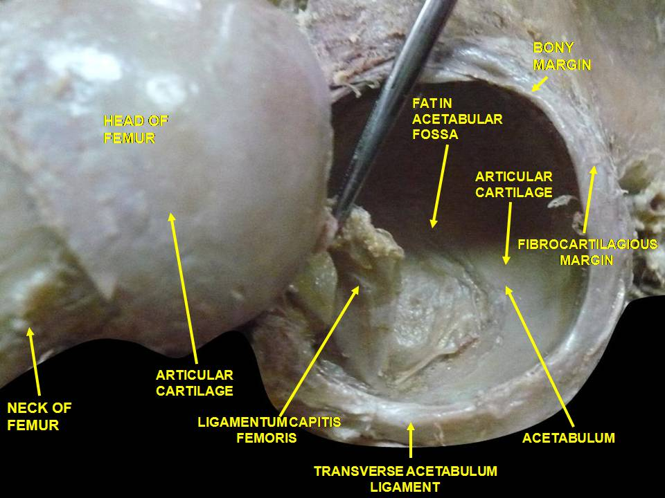 Anatomical dissection